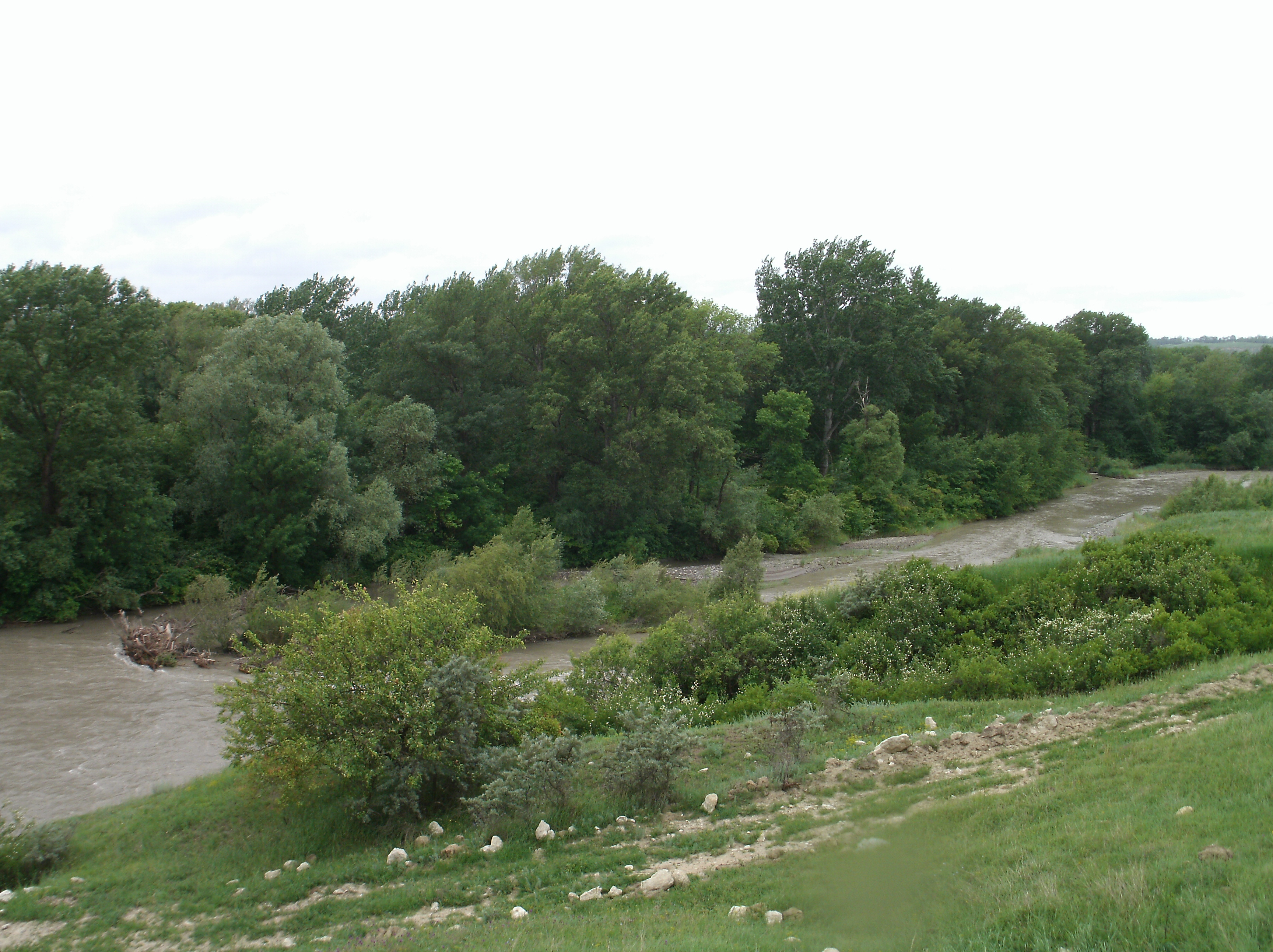 Sea buckthorn grove